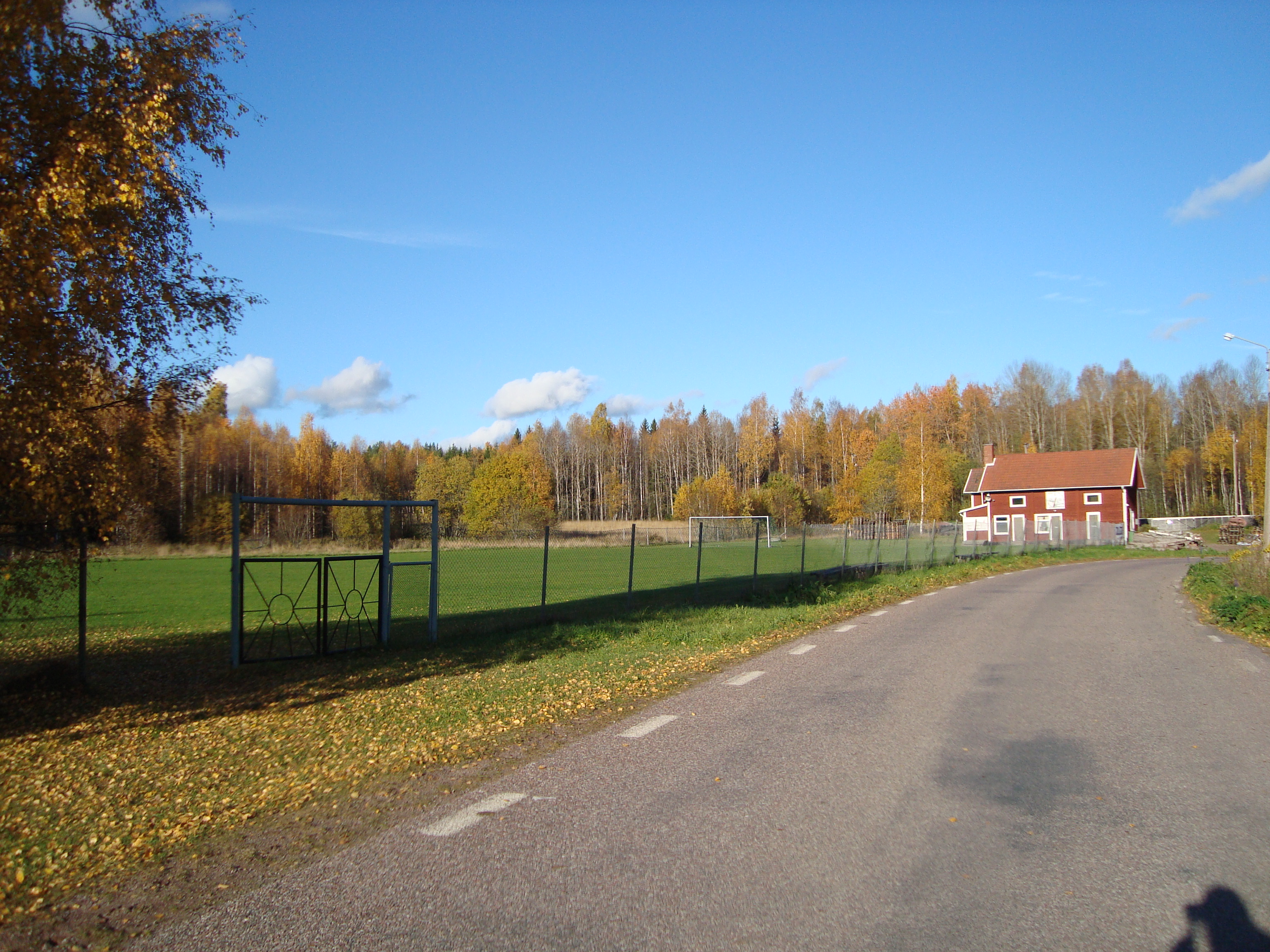 Sports ground (primary football (soccer) - home ground for IK Grim) in Ingvallsbenning, Hedemora municipality, Sweden